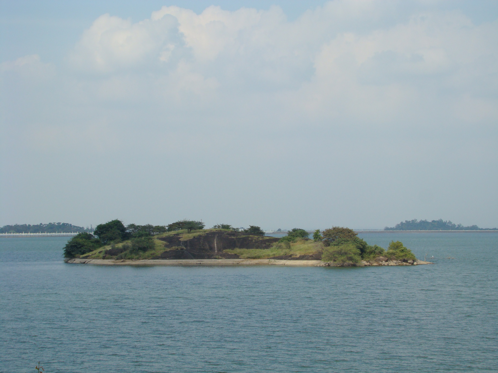 Aliyar reservoir's catchment lake area.